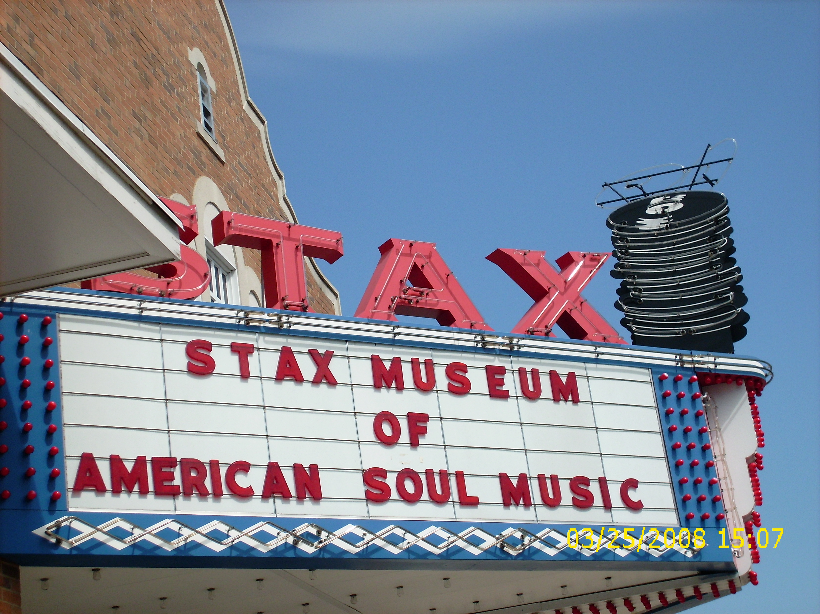 Stax Museum of American Soul Music — exterior marquee. A fabulous stop for any music lover. In the heart of Soulsville USA and located at the site of the original Stax Recording Studios. The museum pays tribute to Stax legendary artist roster including unknowns who would become icons, cranking out a massive catalog of smash soul hits by the likes of Isaac Hayes, Otis Redding, the Staple Singers, Wilson Pickett, Luther Ingram, Albert King, the Bar-Kays, Booker T. & the MG's, Johnnie Taylor, Rufus and Carla Thomas, and dozens of other non-Stax artists who contributed to the soul music landscape. The Otis Redding tribute is incredible.